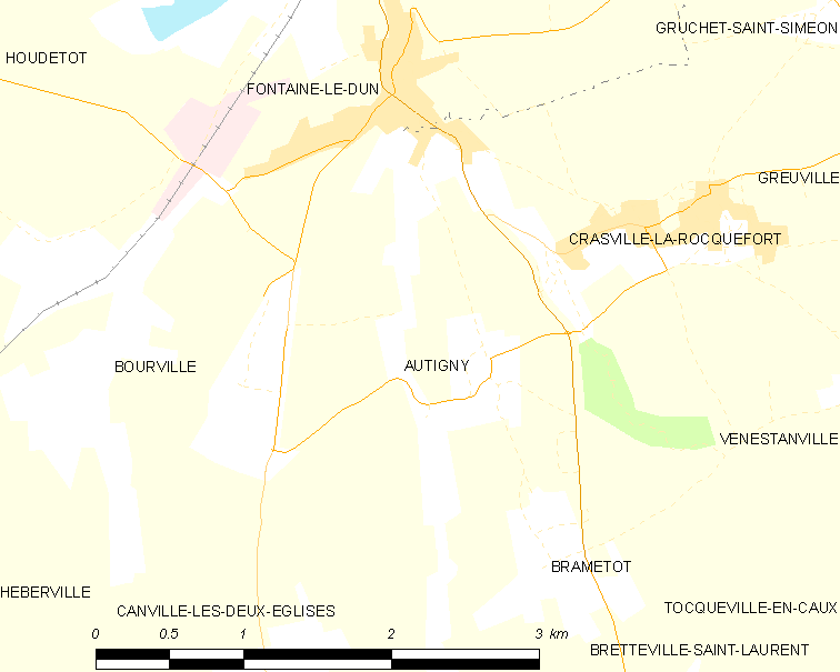 Map of French municipality Autigny